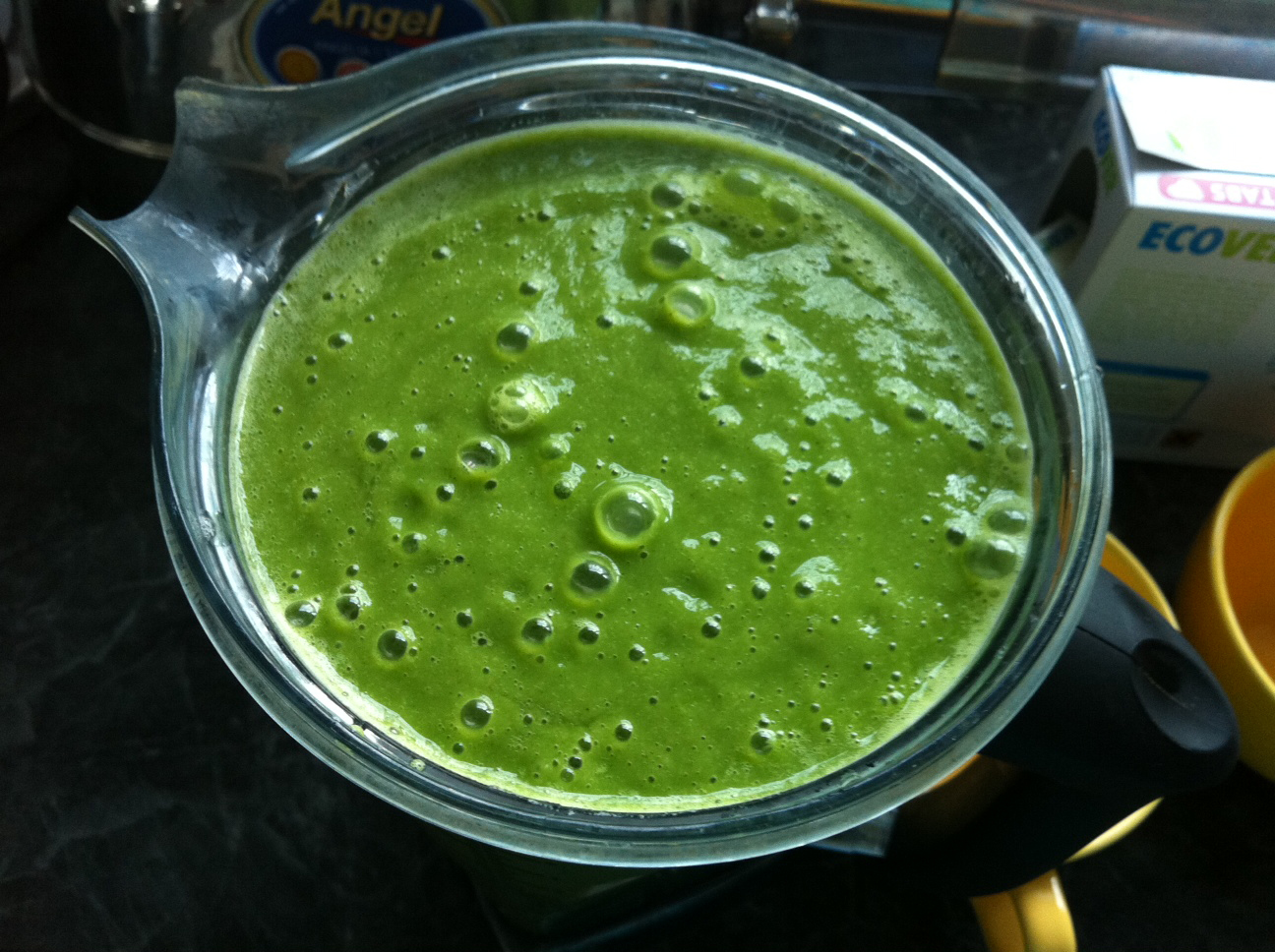 green smoothie with dandelion